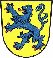 Coat of Arms of Rethem (Aller)